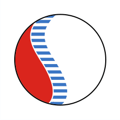 School of Nonkilling Studies Emblem